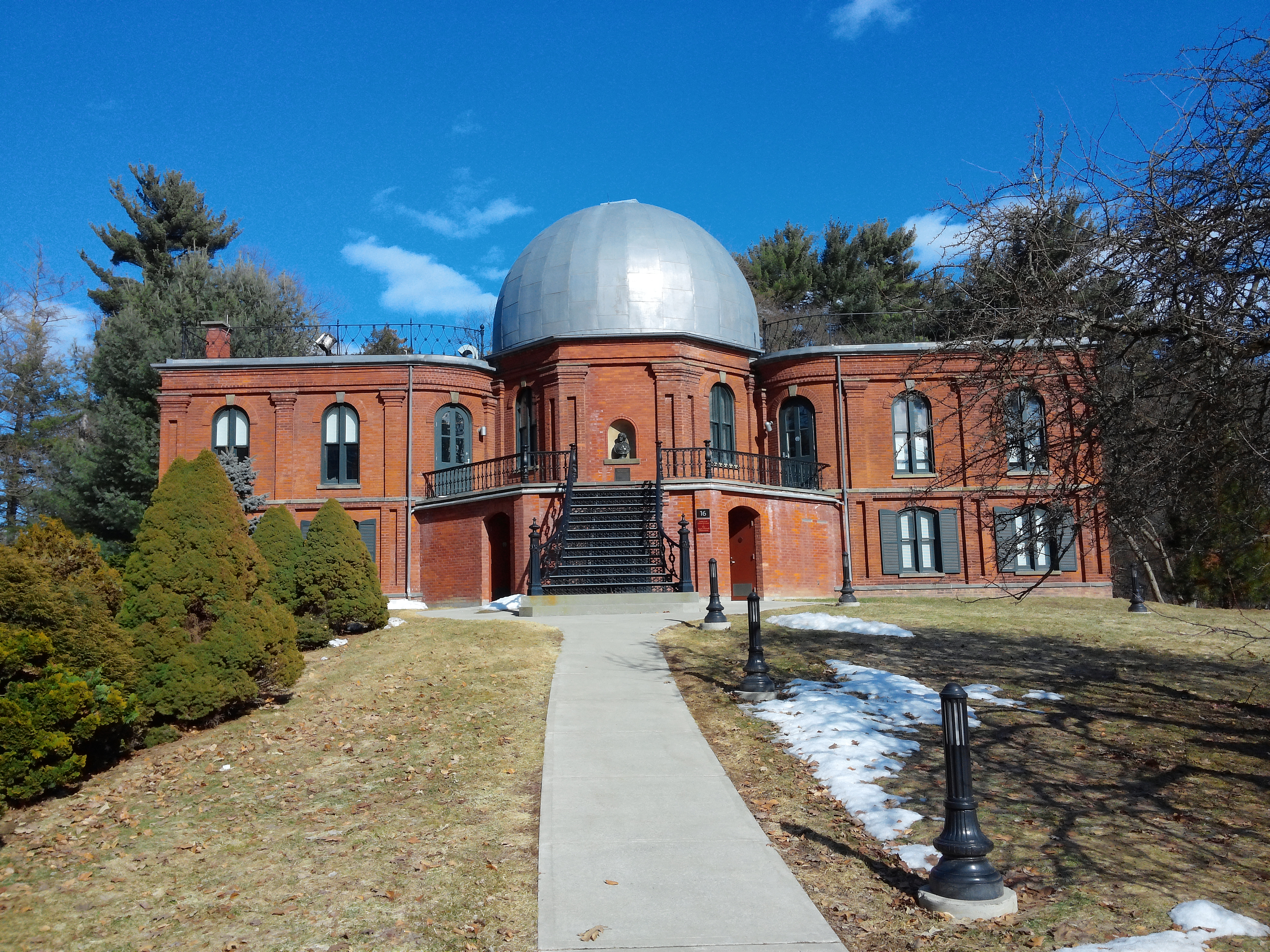 The Vassar College Observatory in March 2014.